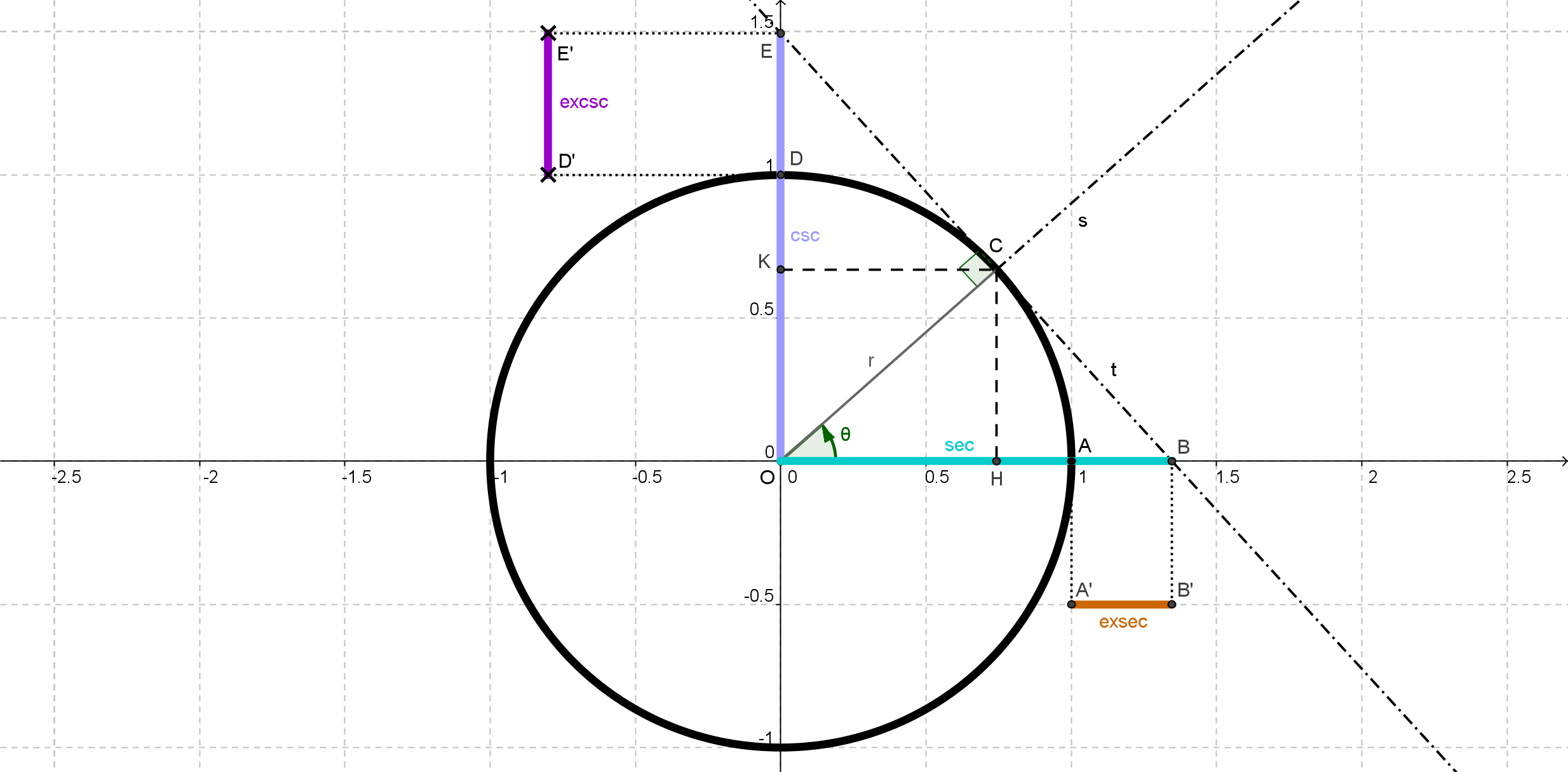 trigonometric functions: secant, cosencant, exsec, excosec